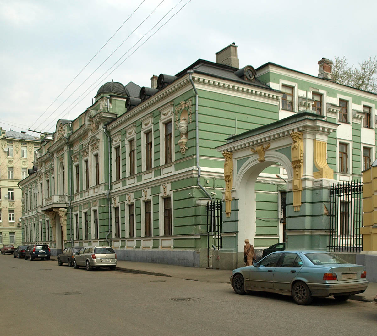 Morozov Palace, Podsosensky Lane, Moscow. The core was built in late 18th century and rebuilt to present-day appearance by Dmitry Chichagov in 1879. Interiors were remodelled in 1895-1900 by Fyodor Schechtel and Mikhail Vrubel. In the back yard, there are standalone buildings by Schechtel (electrical powerplant, 1895) and Ivan Bondarenko (1914, apartment building).